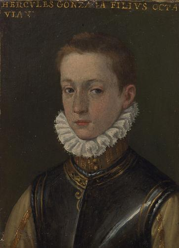 Portrait of Ercole Gonzaga (?-1640)